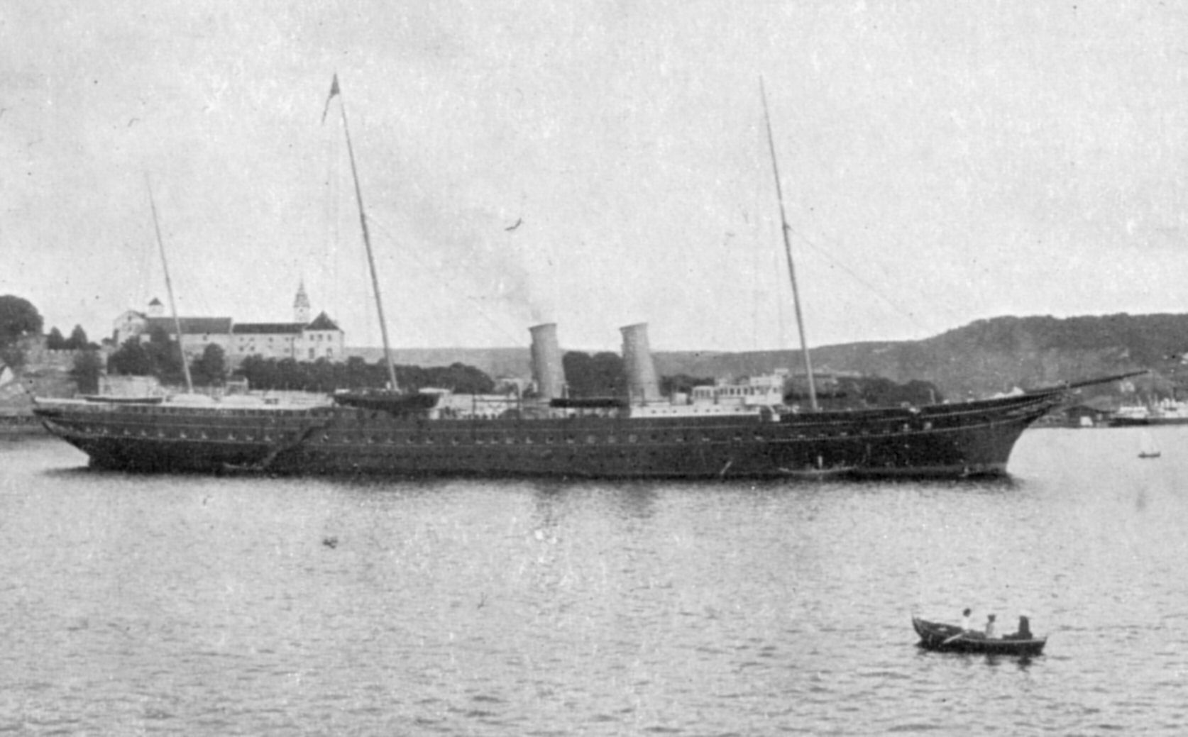 Royal yacht Victoria and Albert III visiting Christiania 1906